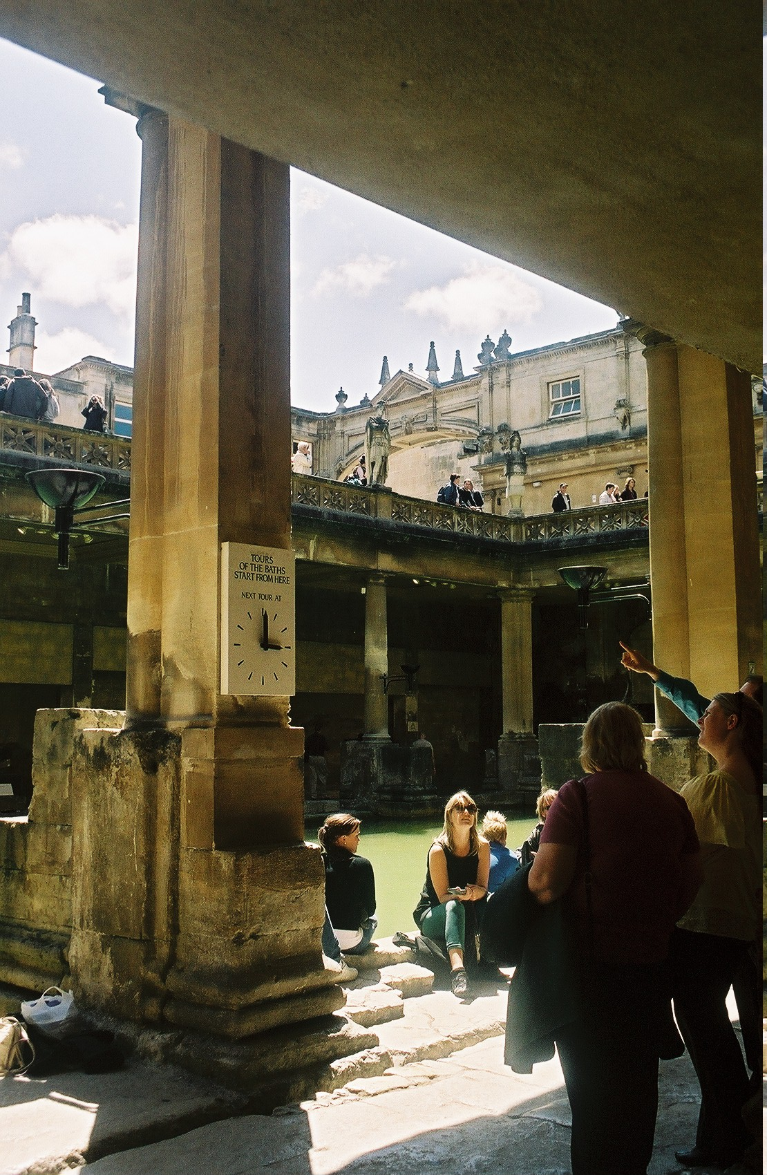 Roman Baths in Bath